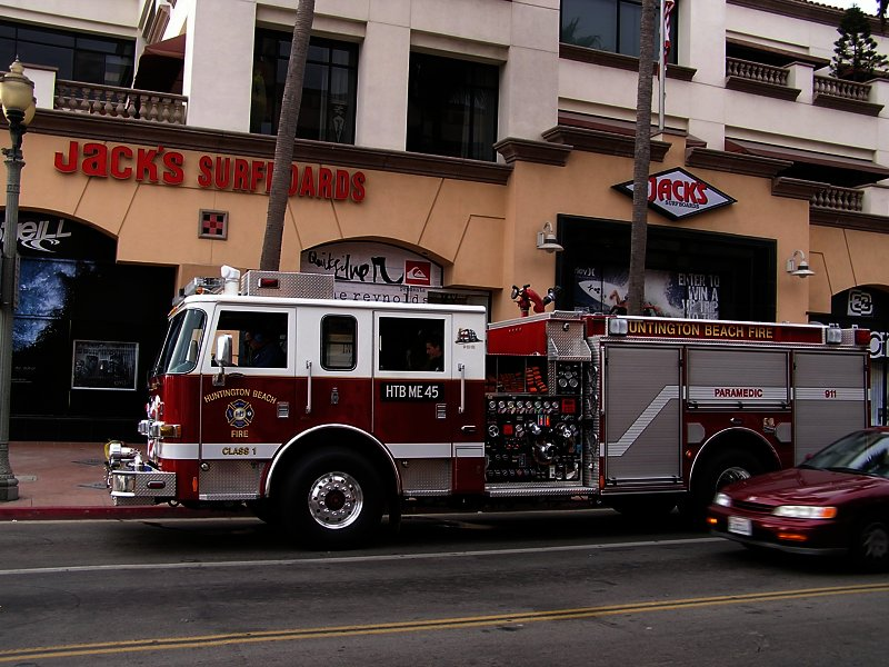 Huntington Beach FD Engine 45 on Main St. near the pier in Huntington Beach, California.